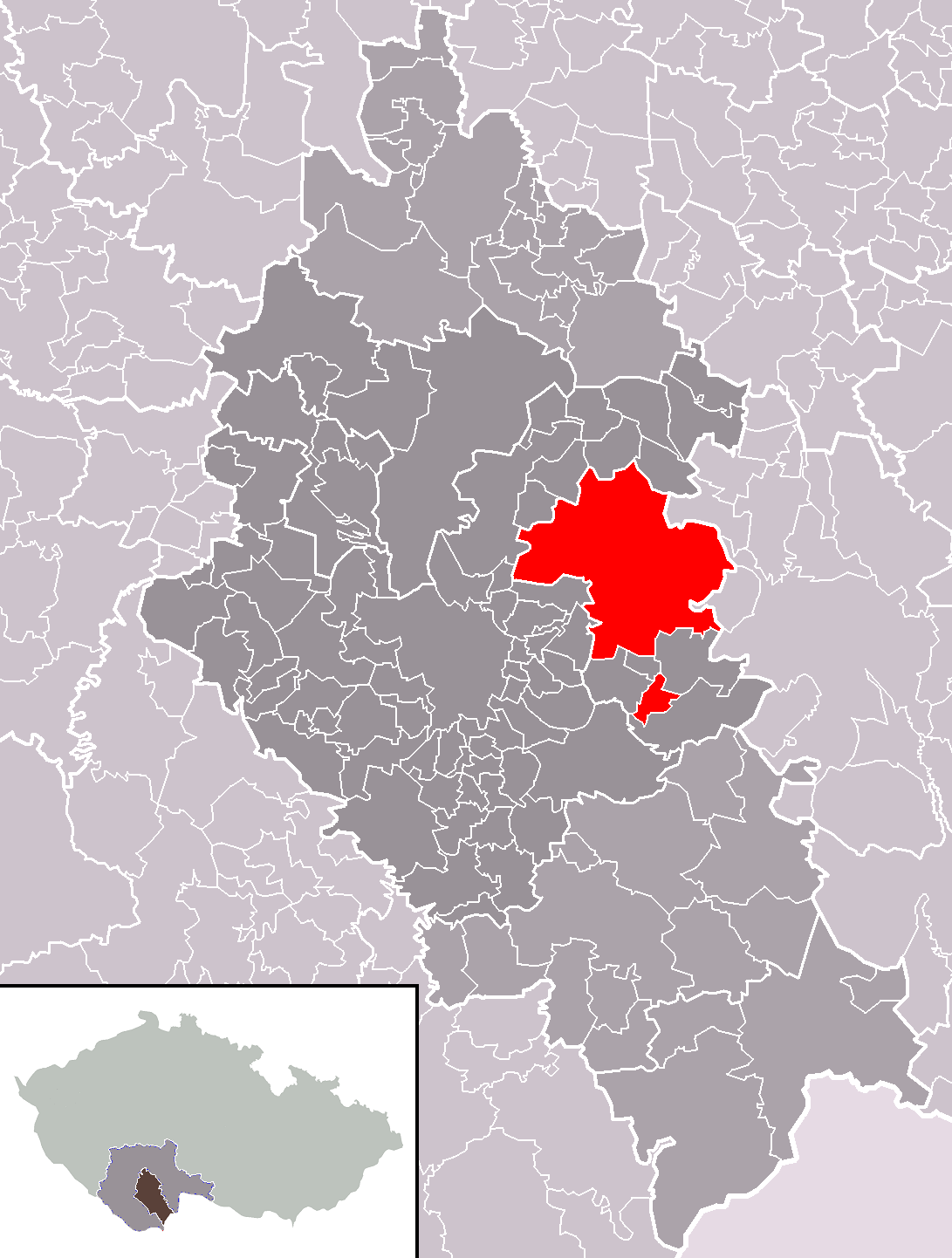 Location of Lišov town within České Budějovice District and administrative area of České Budějovice as a Municipality with Extended Competence.